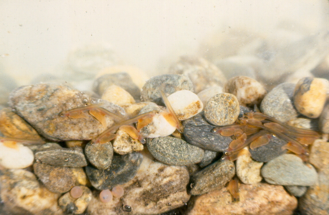 Atlantic salmon sac fry in habitat Sac fry remain in the gravel habitat of their redd (nest) until their yolk sac, or "lunch box" is depleted. Once depleted, the young salmon then emerge from the gravel to look for food.